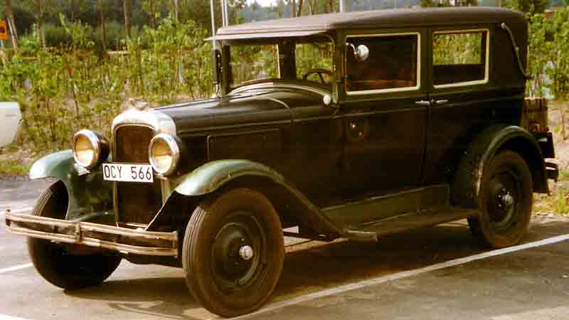 Pontiac New Series 6-28 8230 4-Door Sport Sedan 1928